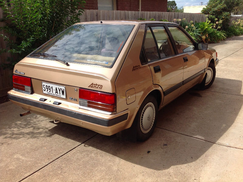 1986 Holden Astra (LC) SL-X, photographed in South Australia, Australia